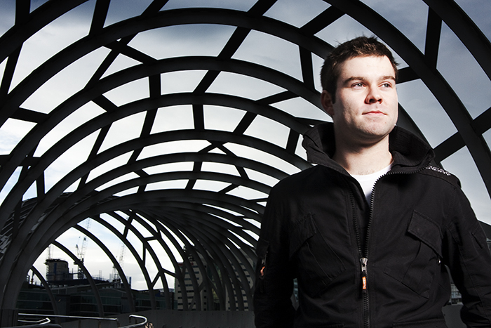 Press shot of James Brooke the Australian DJ